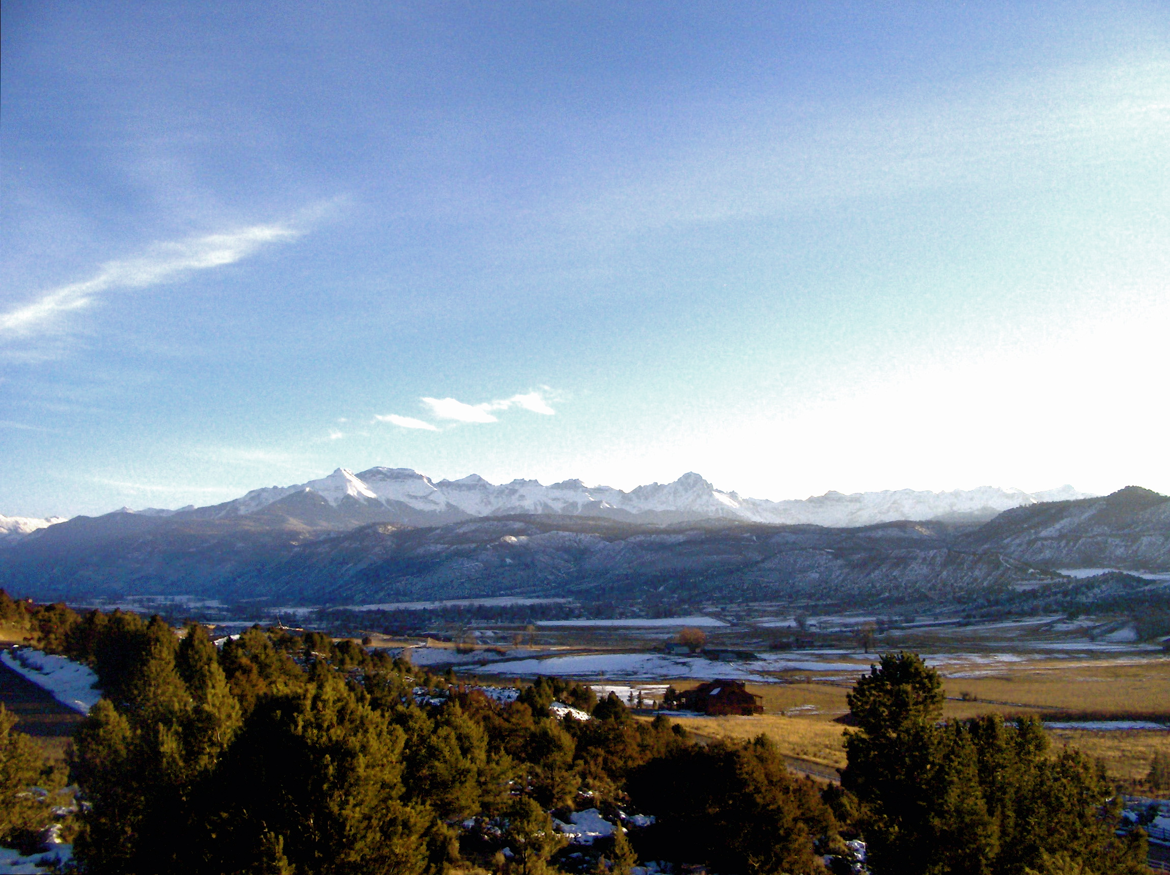 Town of Ridgway, Colorado